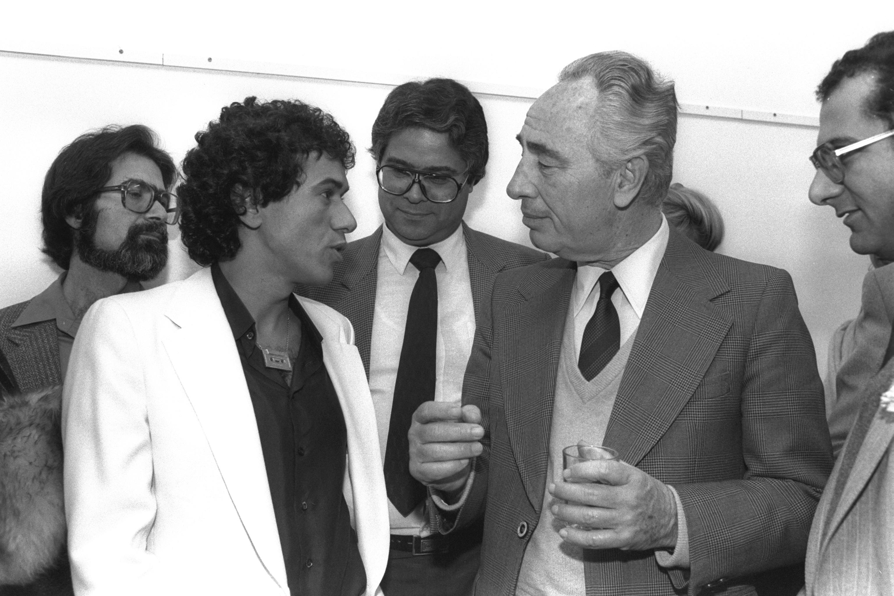 P.M. Shimon Peres talking with singer Chaim Moshe (In white jacket) At the conclusion of the Oriental Song Festival at the Cultural Center in Ramle. ראש הממשלה שמעון פרס משוחח עם הזמר חיים משה, בסיום פסטיבל הזמר המזרחי, ברמלה. Photo: HARNIK NATI, 02/05/1985